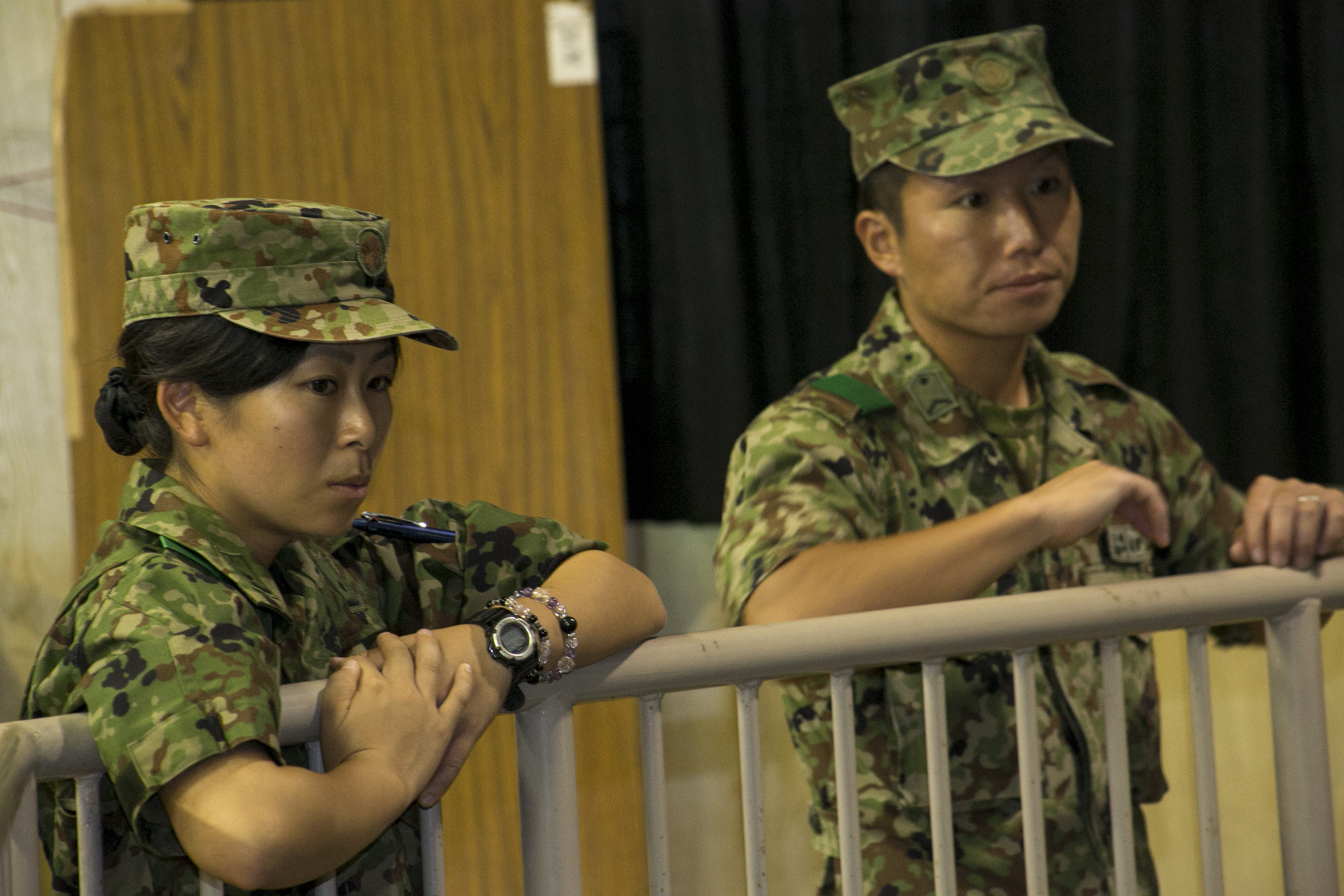 Japan Ground Self-Defense Force 2nd Lt. Shiori Shiotari, left, and Sgt. Gingi Morita, right, observe and assess personnel response times during a simulated earthquake in central Naha July 23 at Camp Naha, Okinawa. JGSDF personnel met with U.S. service members and federal employees stationed on Okinawa to share knowledge, wisdom and experience. Shiotari is a supply officer and Morita is a supply noncommissioned officer. Both are with Supply Company, 15th Brigade, JGSDF. (U.S. Marine Corps photo by Lance Cpl. Pete Sanders/Released)